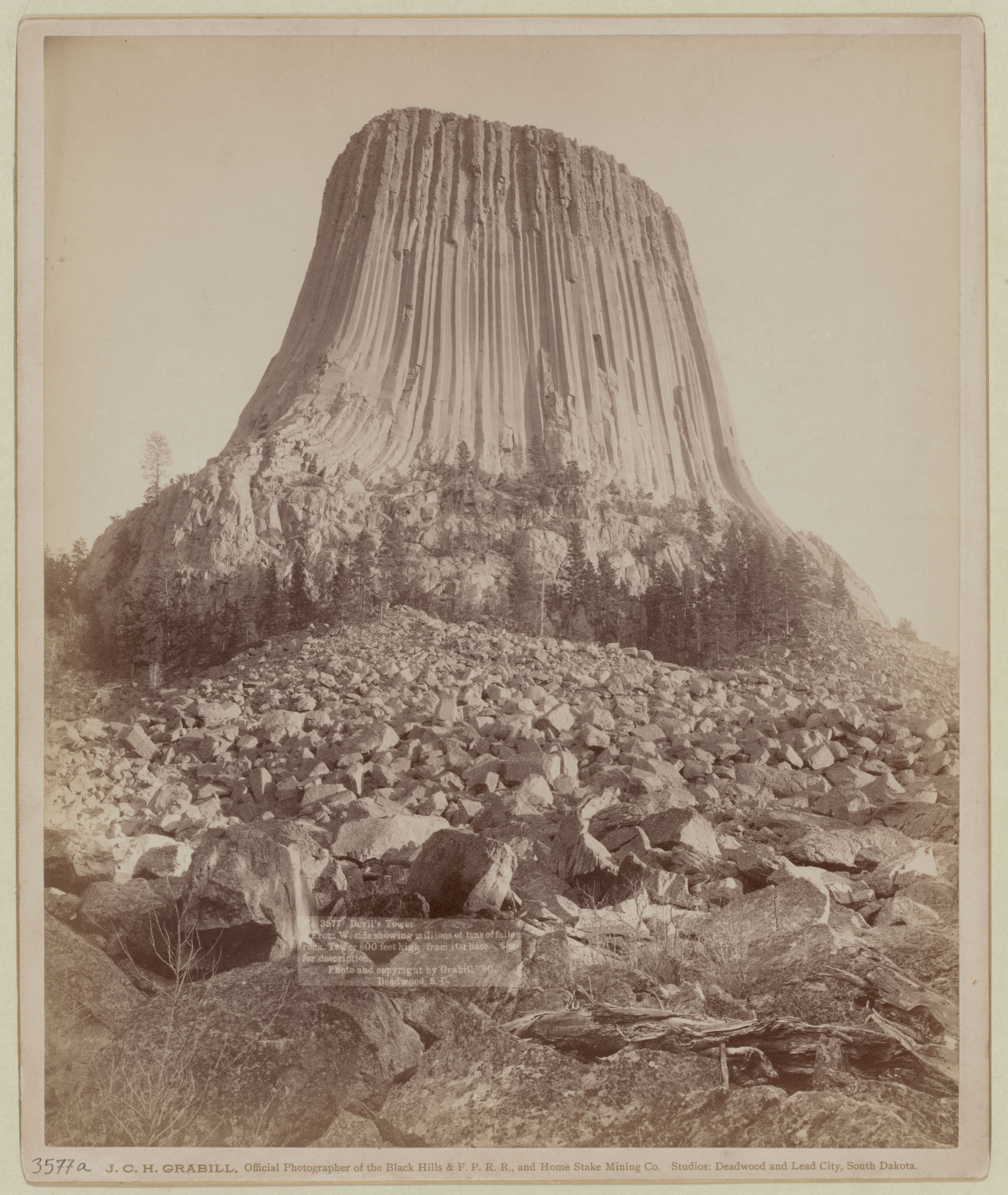 Original title Devil's Tower. From W[est] side showing millions of tons of fallen rock. Tower 800 feet high from its base